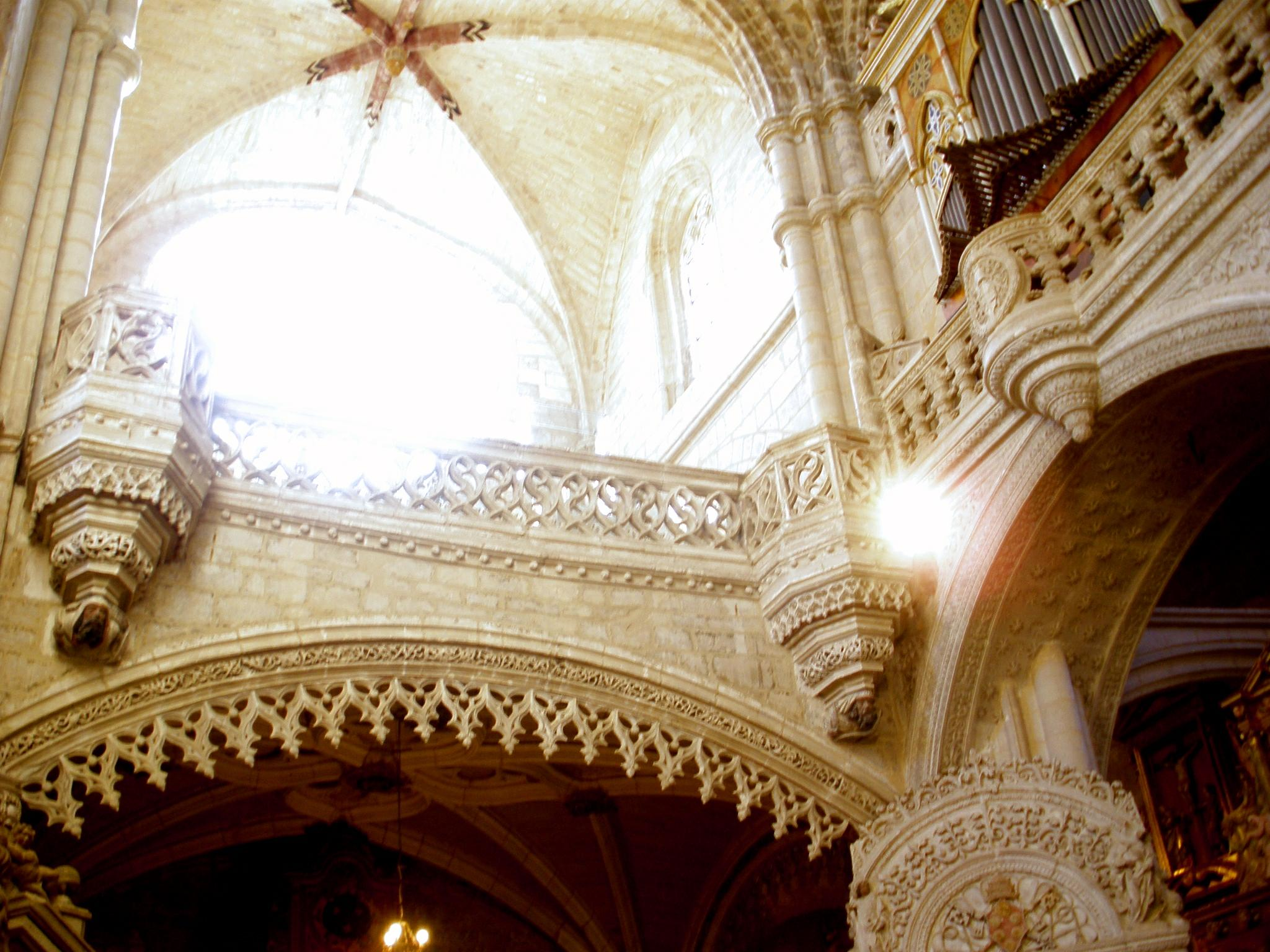 Coro de la iglesia de San Esteban (Museo del Retablo) de Burgos, España